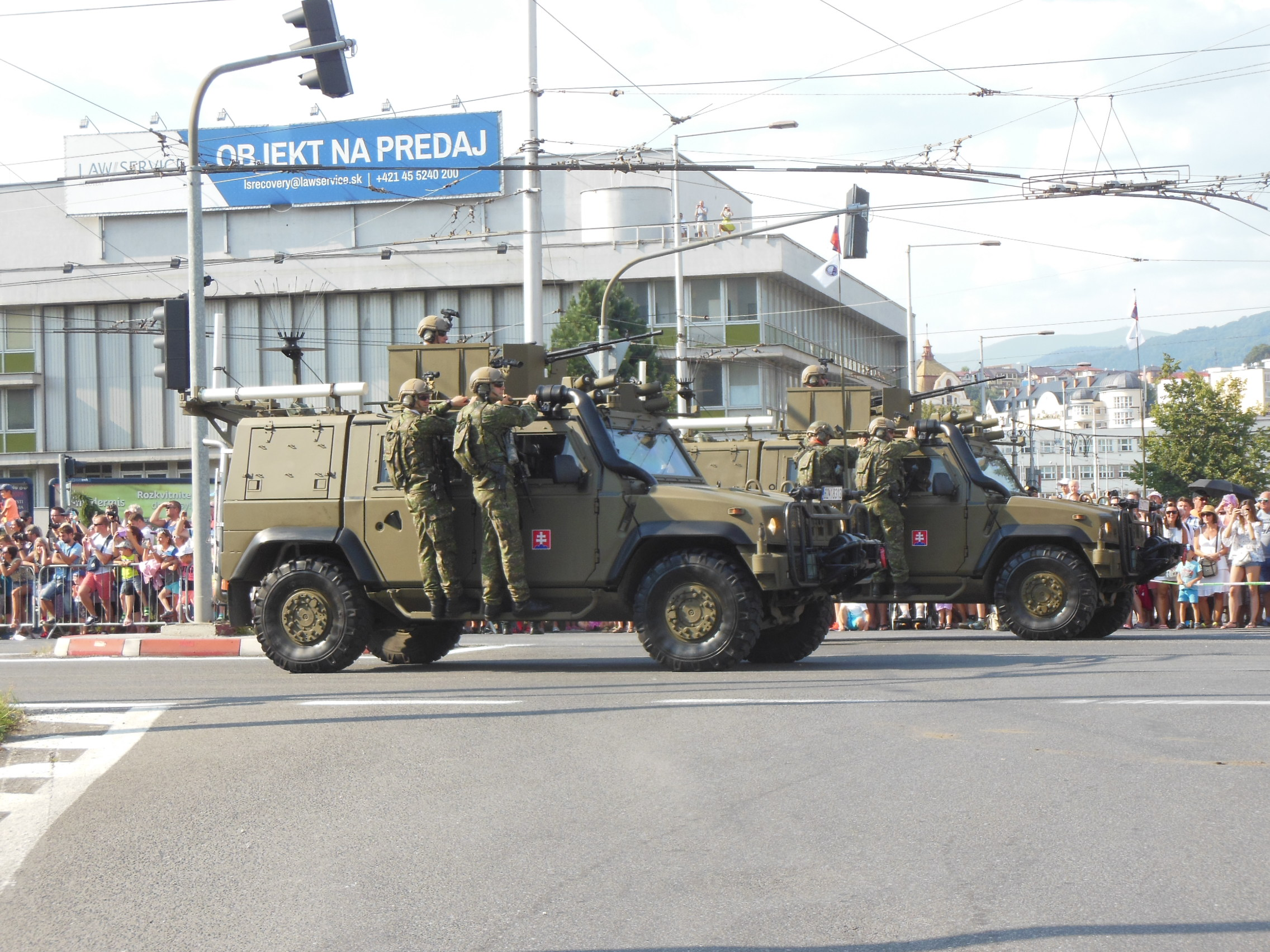 75th Anniversary of the Slovak National Uprising Celebrations in Banská Bystrica, Slovakia. Military parade on Štefánikovo nábrežie.